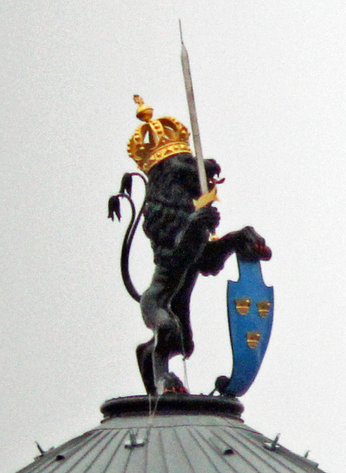 Skansen Lejonet in March 2012.